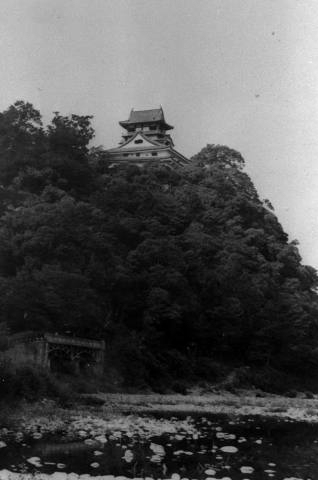 Inuyama Castle Keep Tower in 1937.